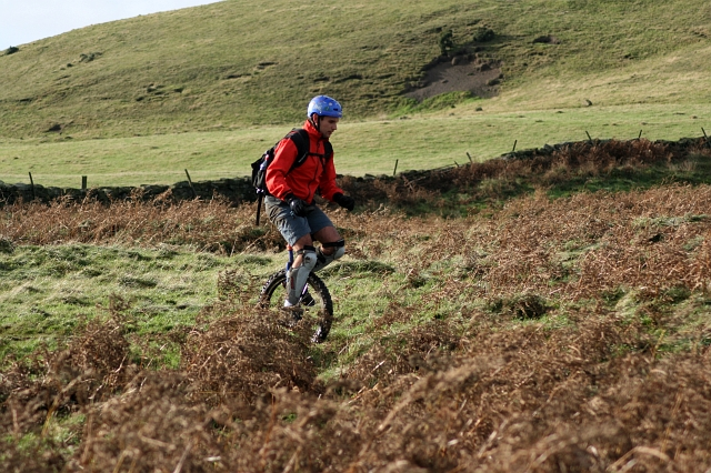 Making Hard Work of It Do unicycles and off road terrain mix? Seems hard work to me. Seen on the col between the Topping and Little Roseberry.